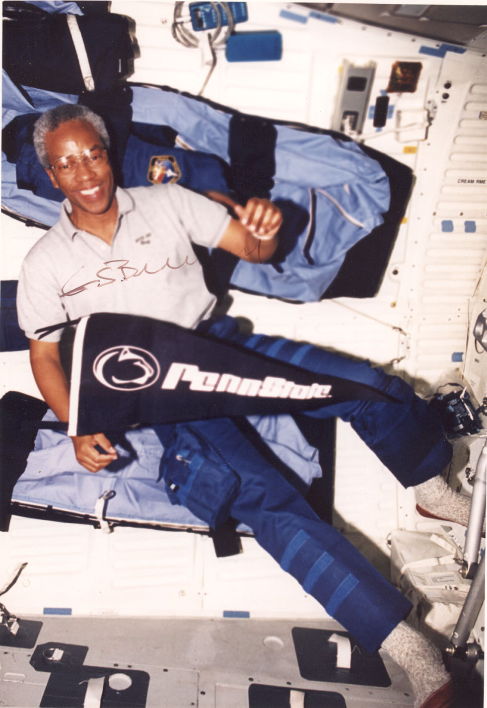 Astronaut Guy Bluford poses with a Penn State pennant onboard the Space Shuttle Discovery during mission STS-53. Bluford is a 1964 alumnus of the Department of Aerospace Engineering.